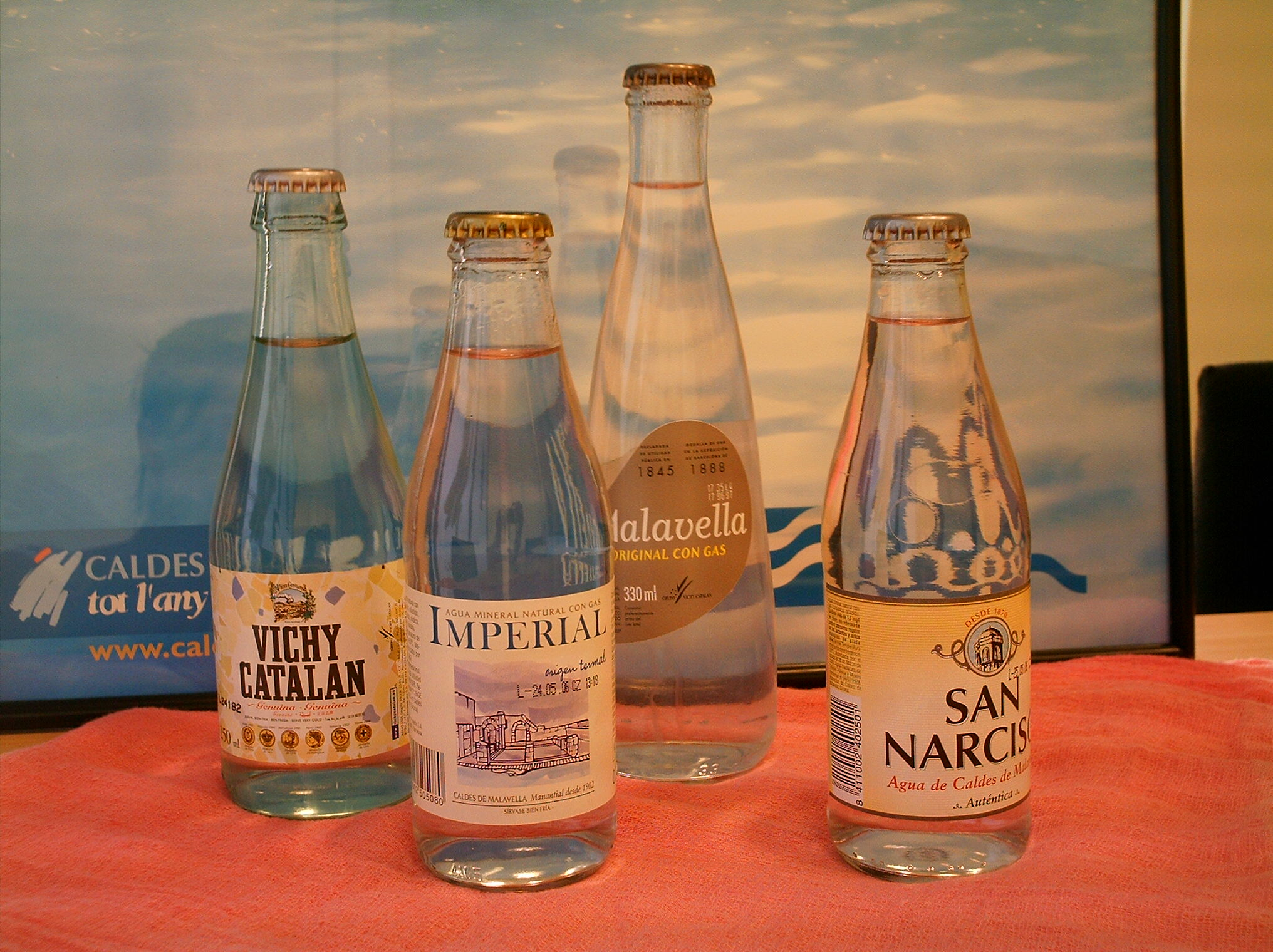 Aguas embotelladas de Caldes de Malavella